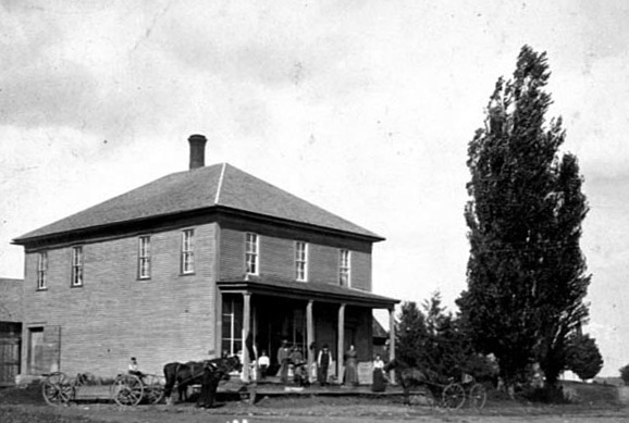 Group in front of store at Jacksonville, ca. 1910. Provincial Archives of New Brunswick number P46-110.